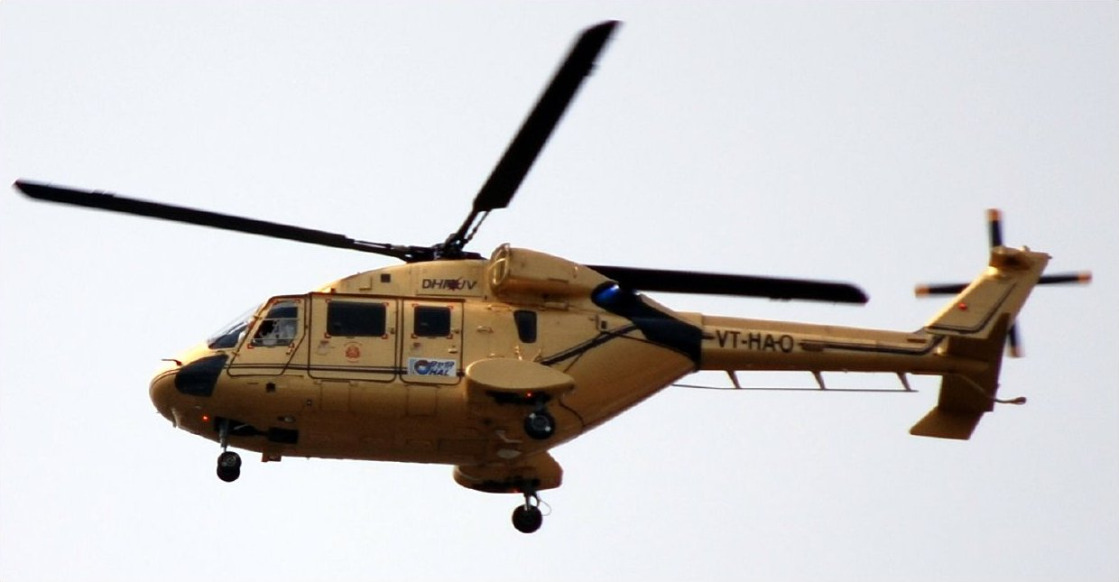 DHRUV VT-HAO A test flight by one of HAL (Hindustan Aeronautical Limited, bangalore) creation - Dhruv